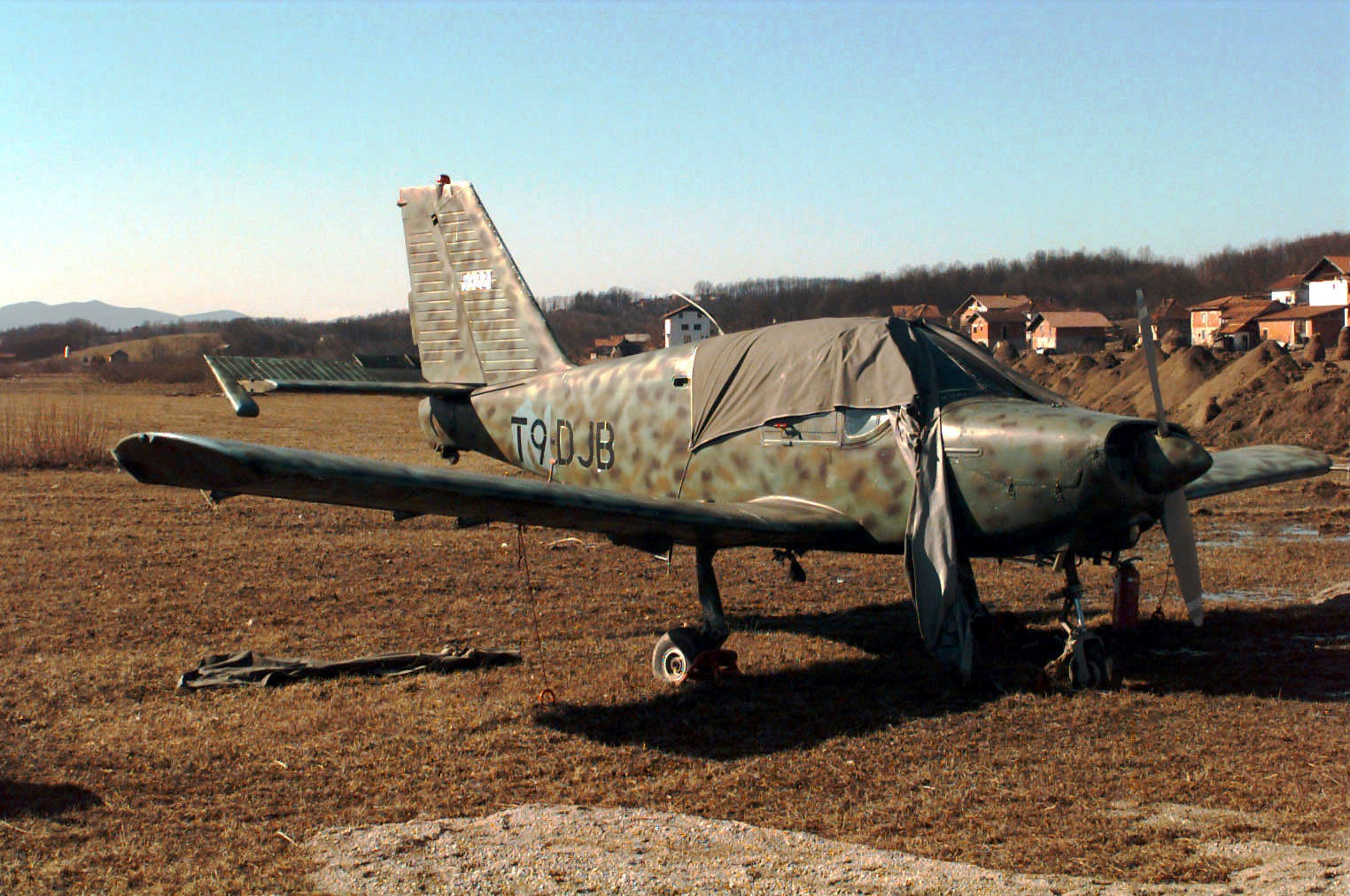 A Bosnian Muslim Army UTVA-75 Light Utility Aircraft parked at Coralici Airfield, Bosnia-Herzegovina.